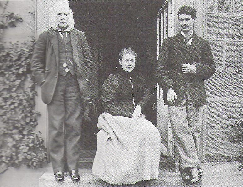 Photo of Rupert Potter, Breatrix Potter, and Walter Potter